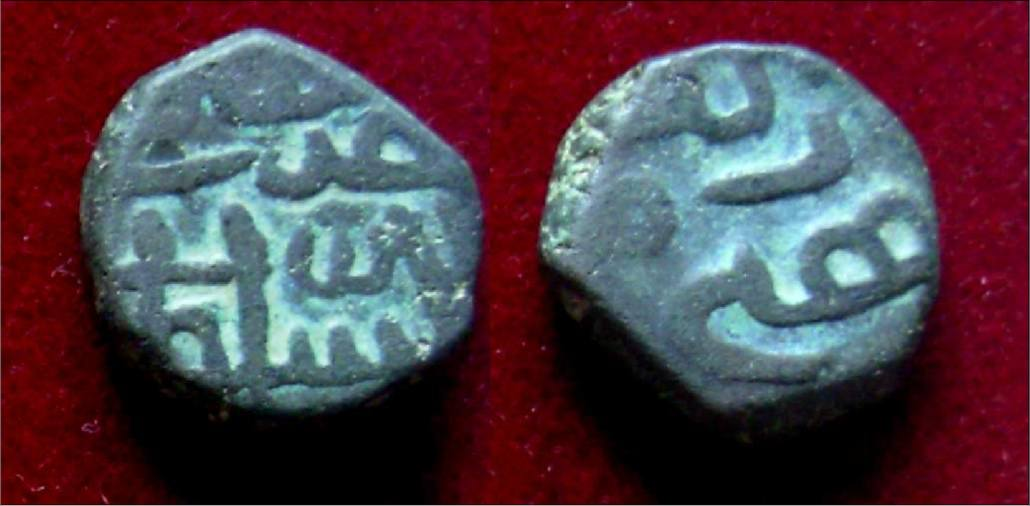 A copper coin of Nusrat (Delhi sultanate) in my personal collection